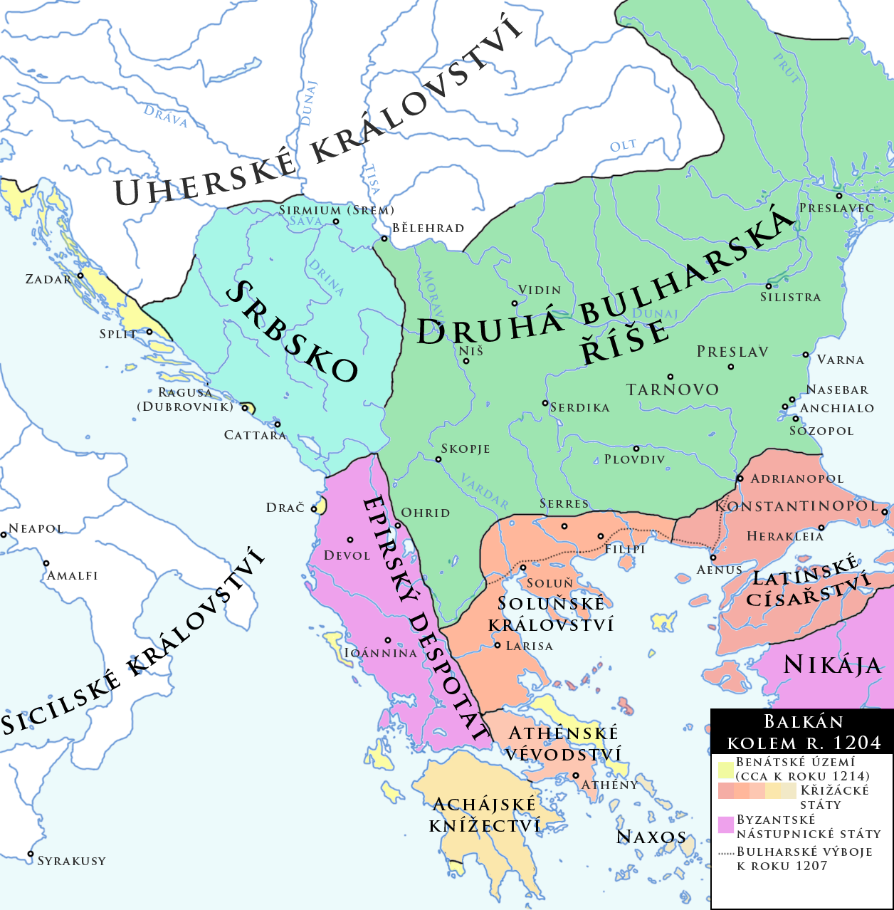 Map of the political situation in the Balkans, ca. 1204.